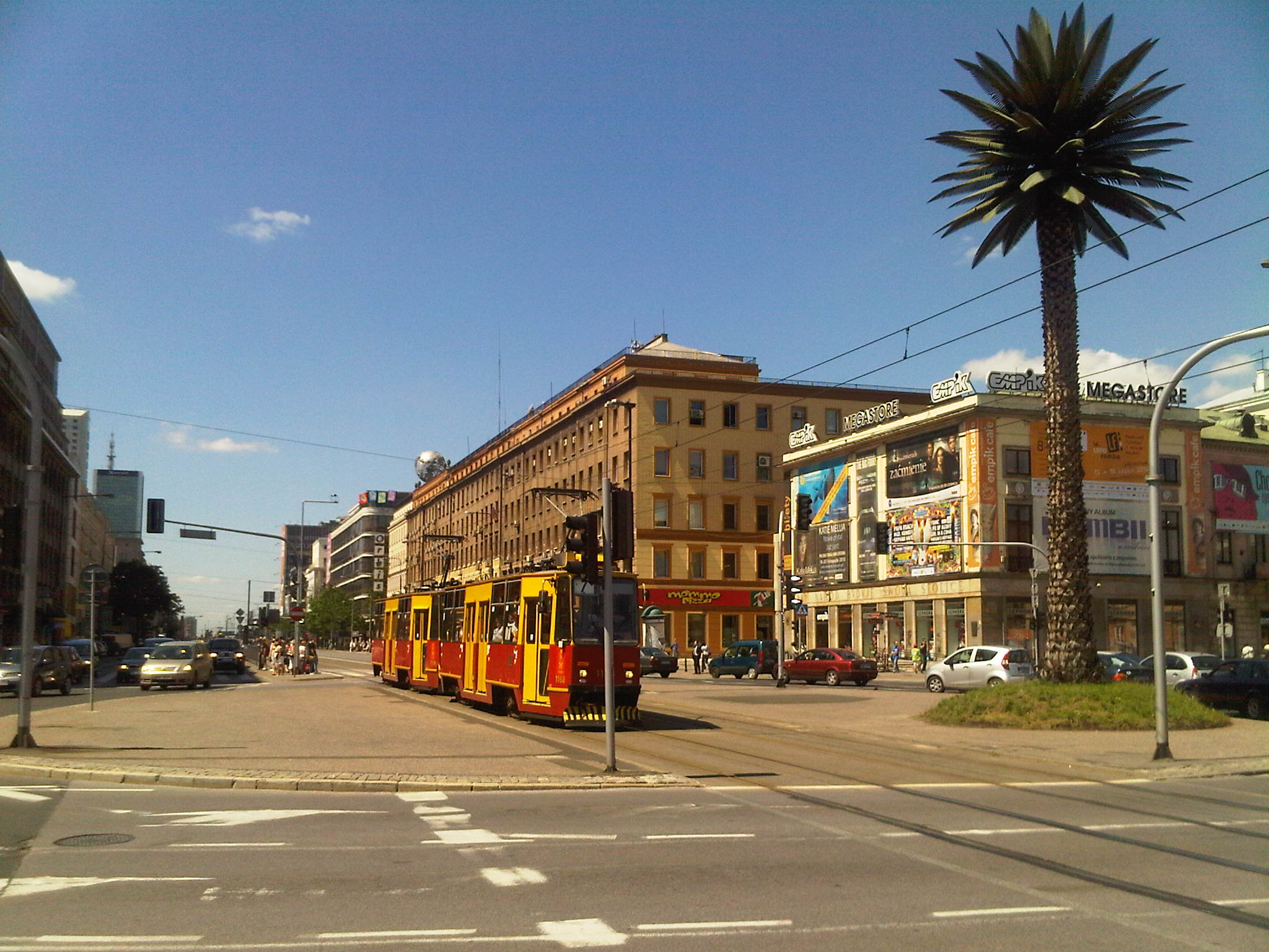 Charles de Gaulle roundabout in Warsaw's City district (view towards Jerusalem Avenues, 2010).